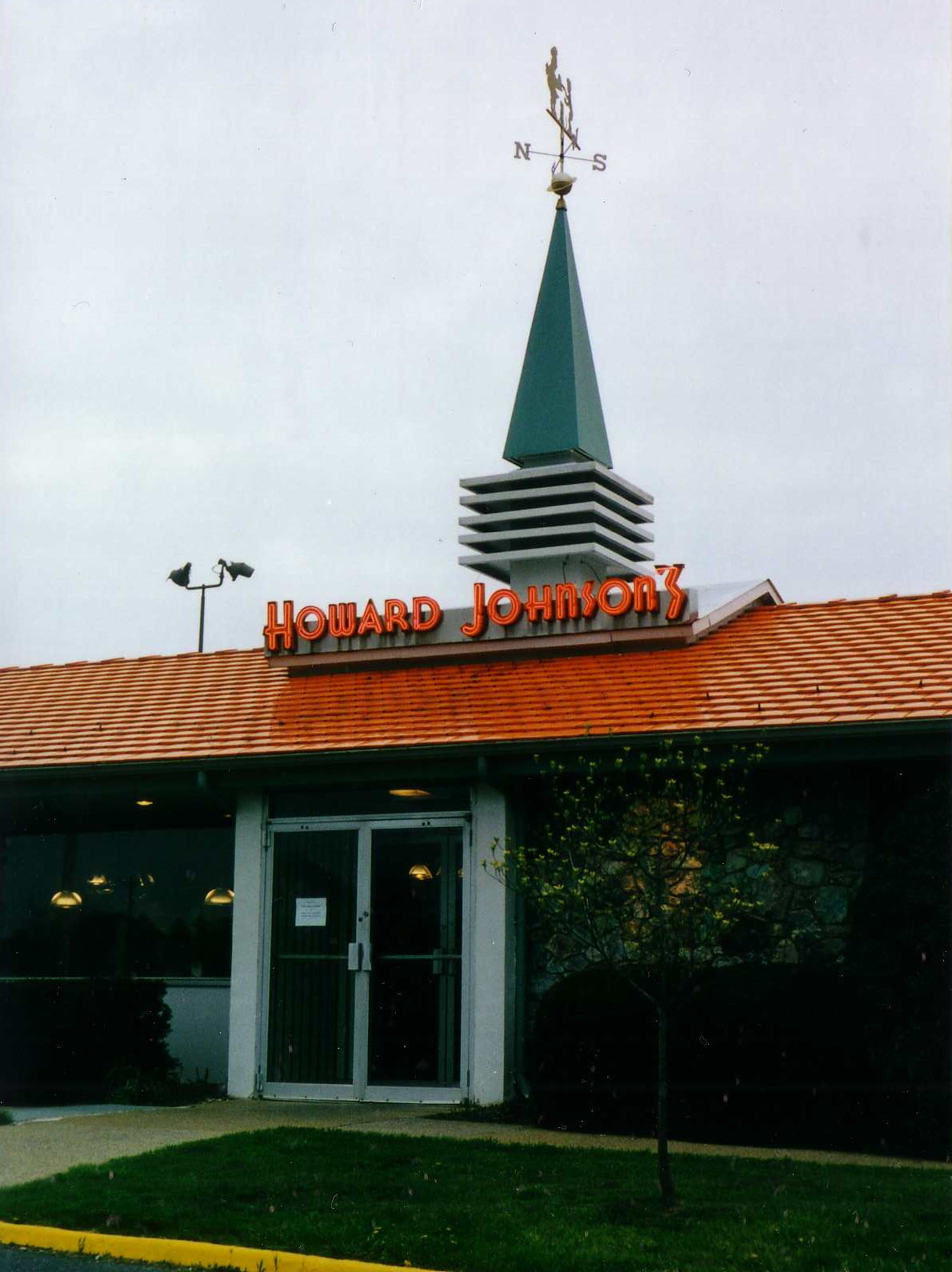 Entrance to a Howard Johnson's full-service restaurant in Pennsylvania. Picture taken in 1999.